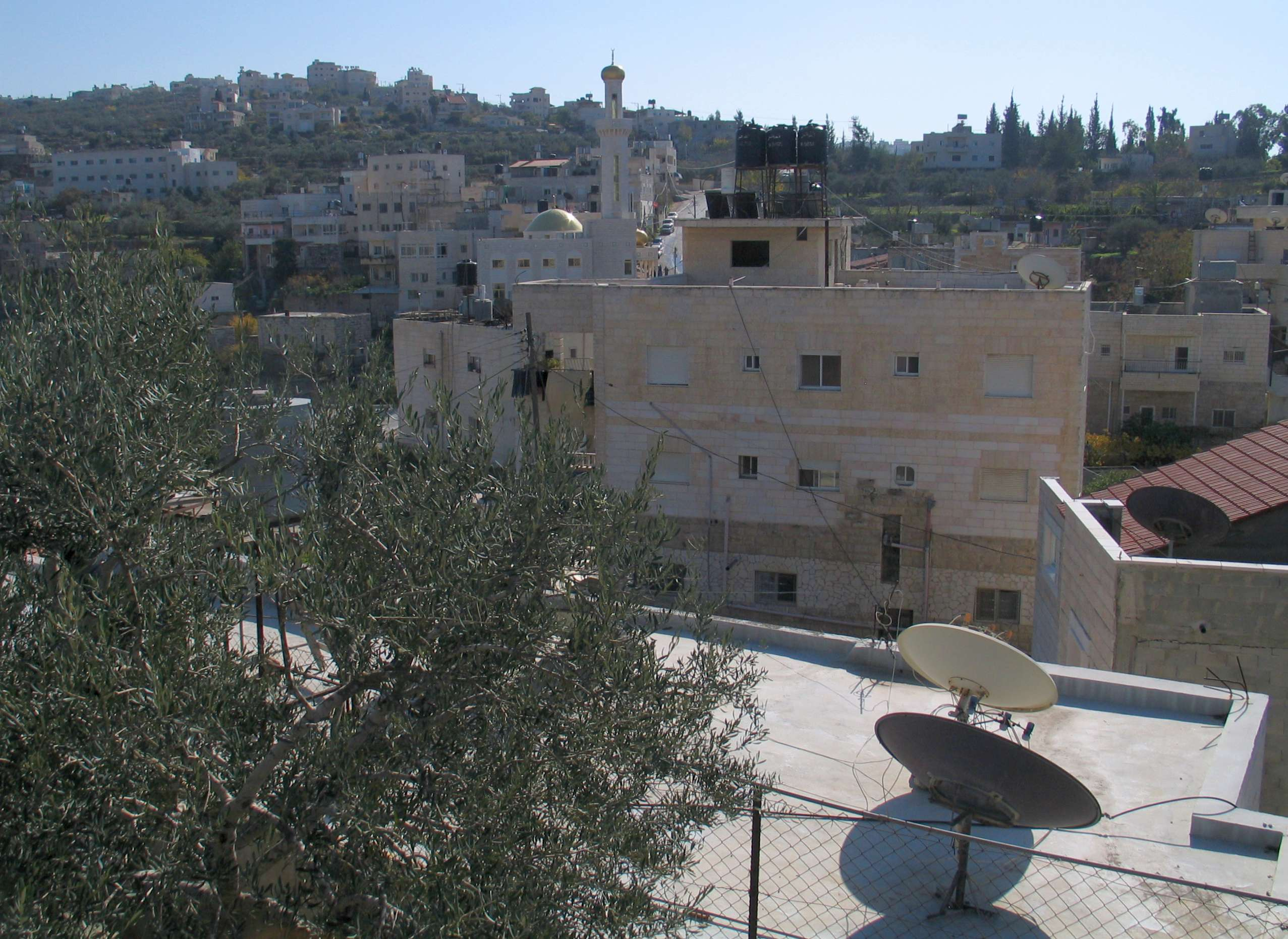 Village of Batir, West Bank.